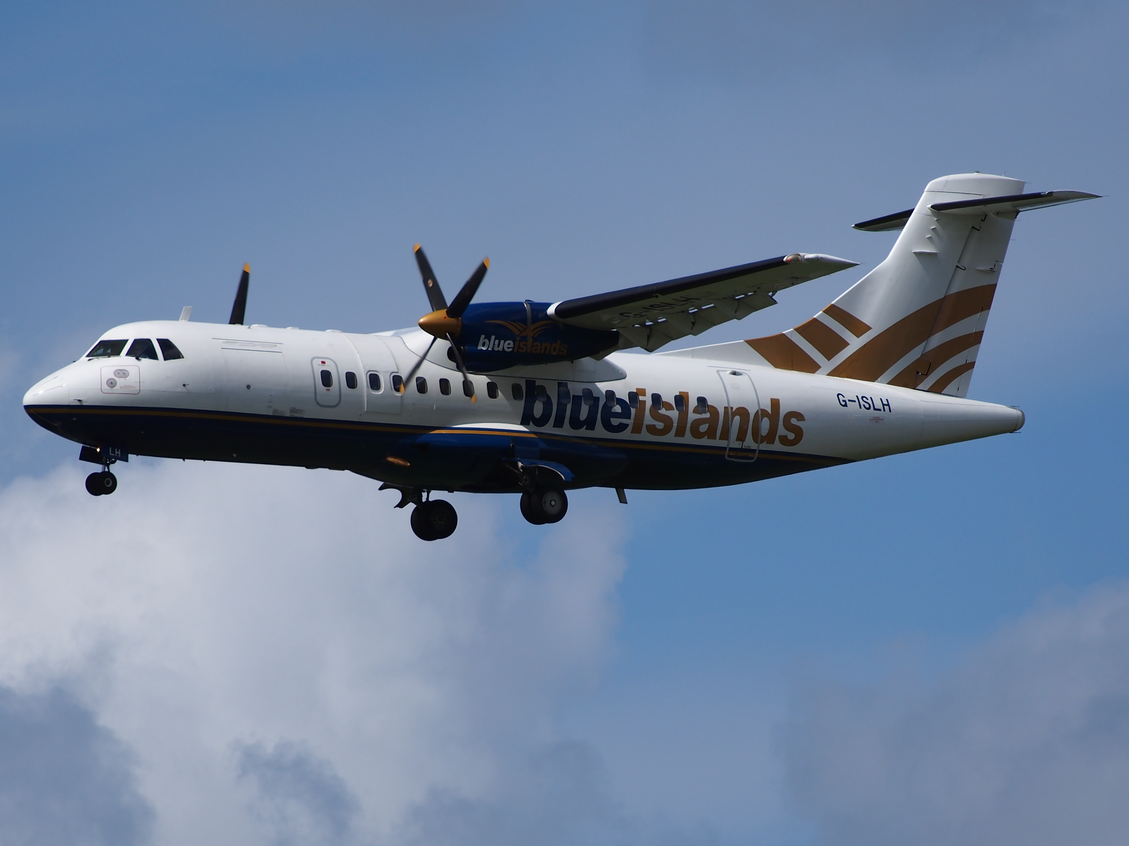 Photographed at Schiphol (AMS - EHAM), The Netherlands.